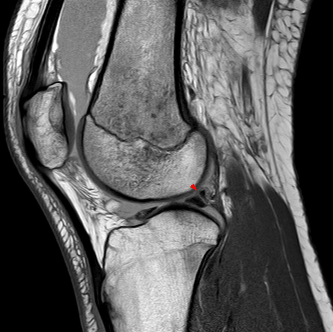 Ligamentum meniscofemorale posterius (Wrisberg) behind the posterior horn of the lateral meniscus mimicing a tear. There is effusion of blood in the joint cavity from a trauma wich did not affect the posterior elements.